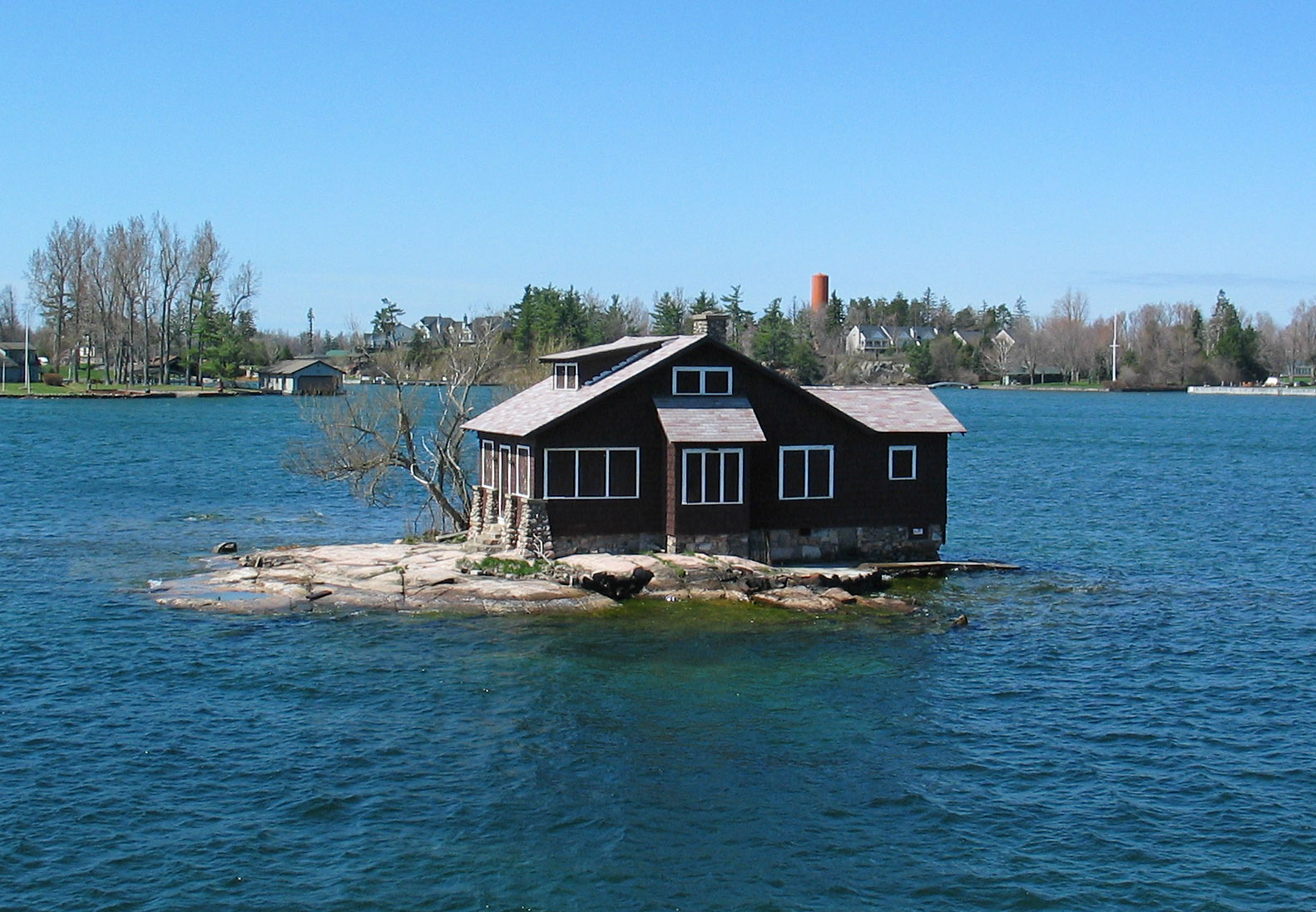 1000 Islands. Hub Island / St Lawrence River, USA